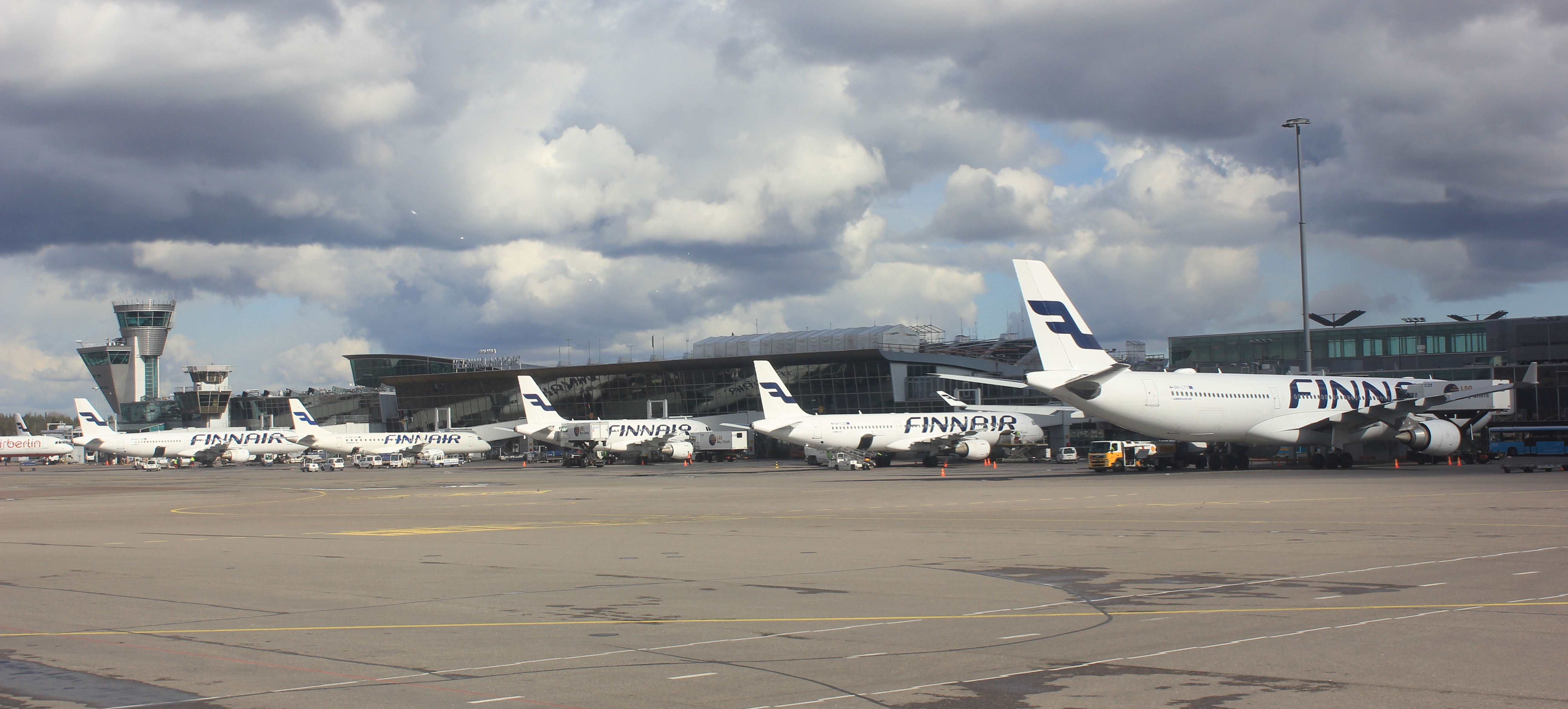 Finnair aircraft at Helsinki-Vantaa Airport (HEL/EFHK)